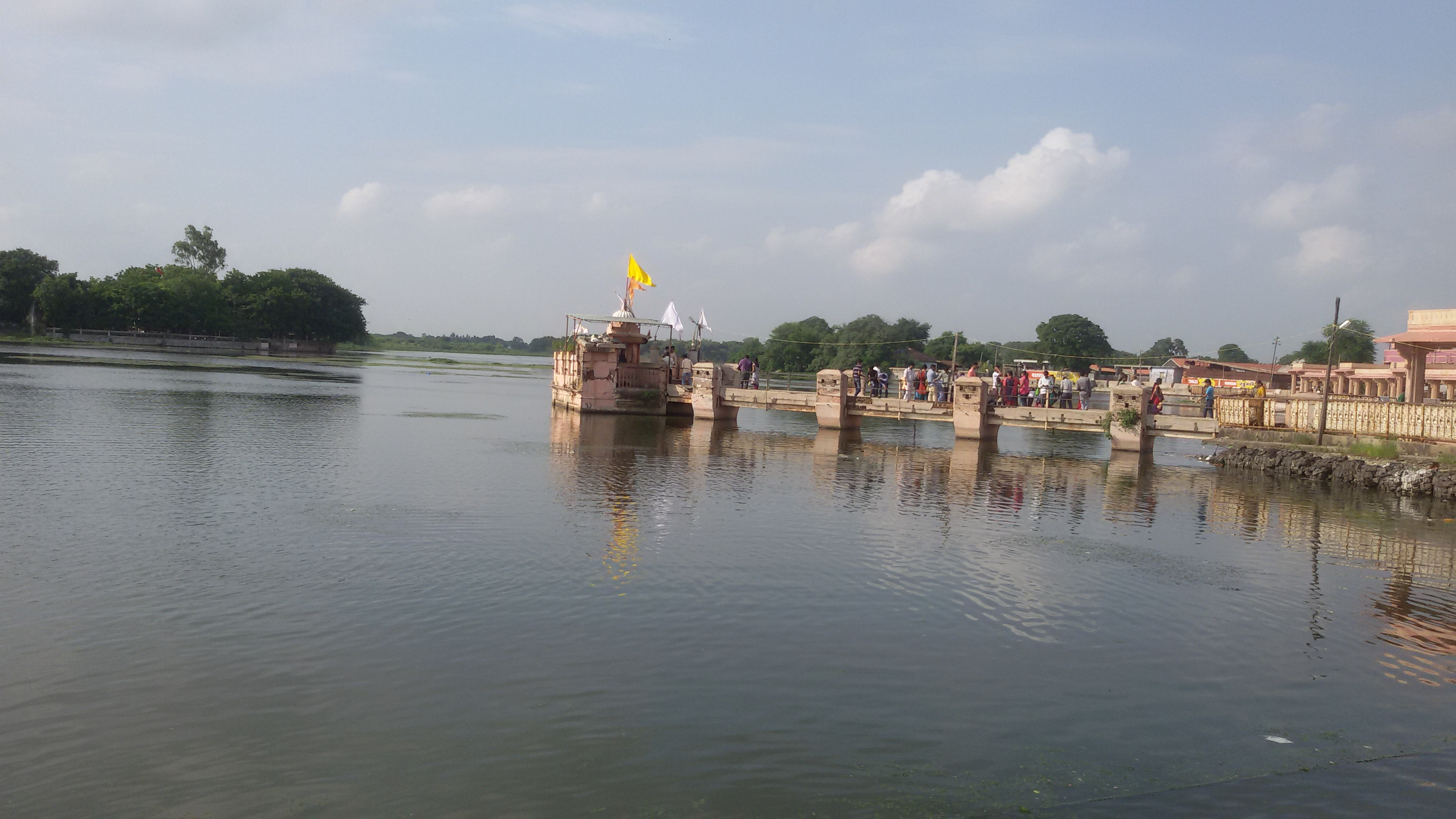 Gomati Ghat, Dakor, Gujarat